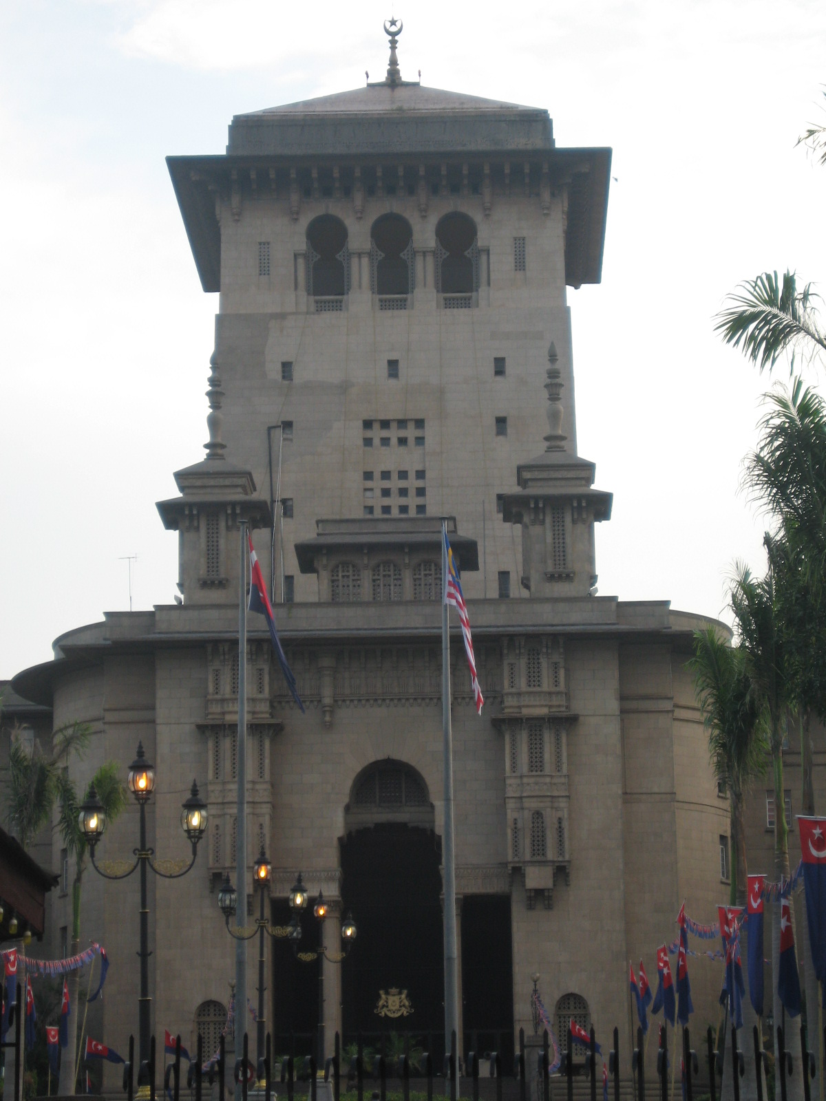 Bangunan Sultan Ibrahim.